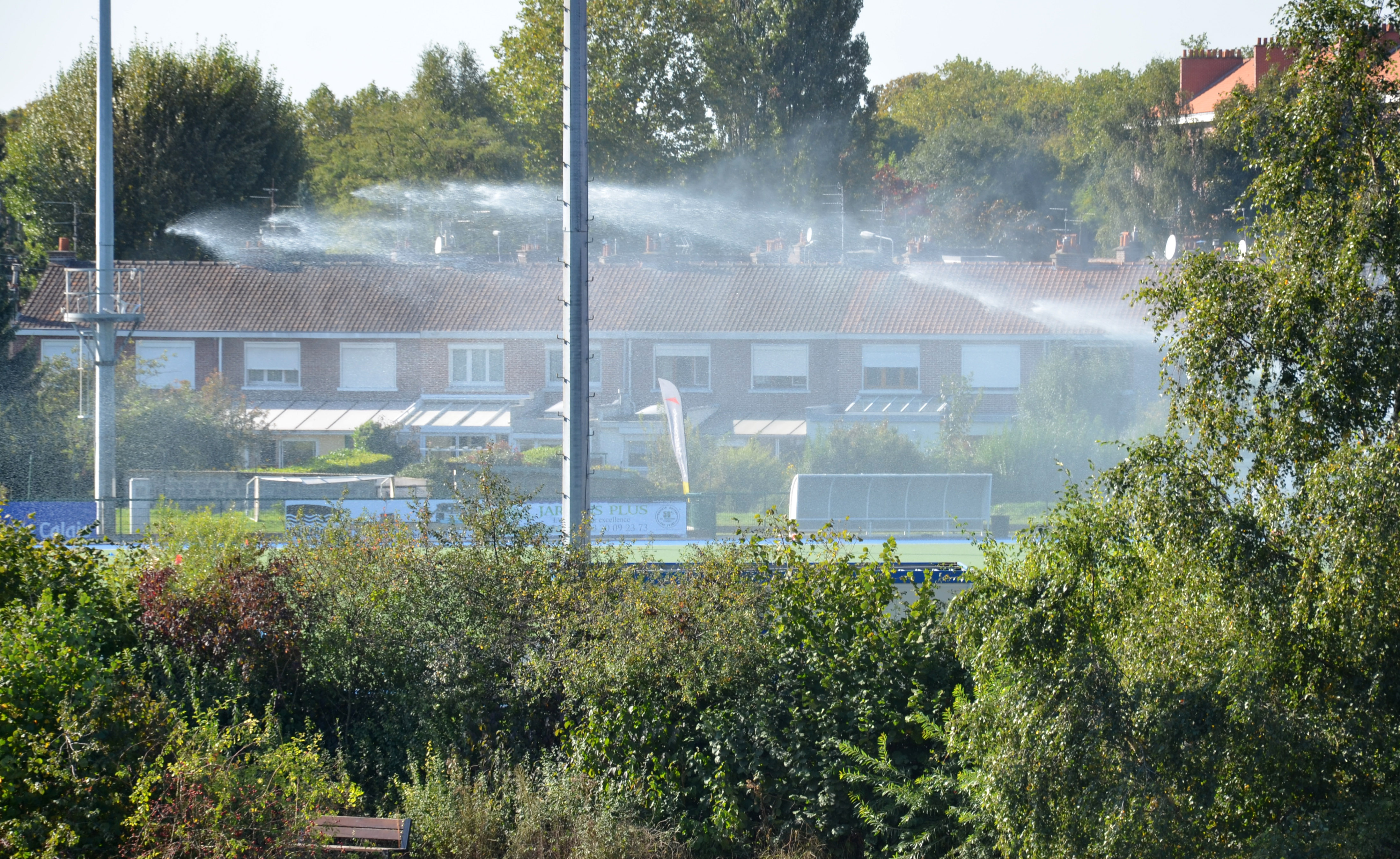 Field hockey irrigation (synthettic turf)